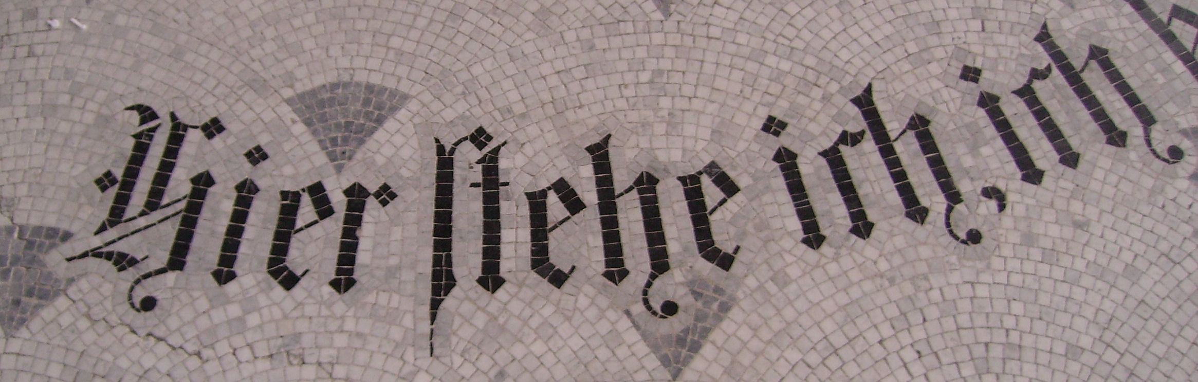 Gedächtniskirche (Memorial Church) in Speyer, Germany